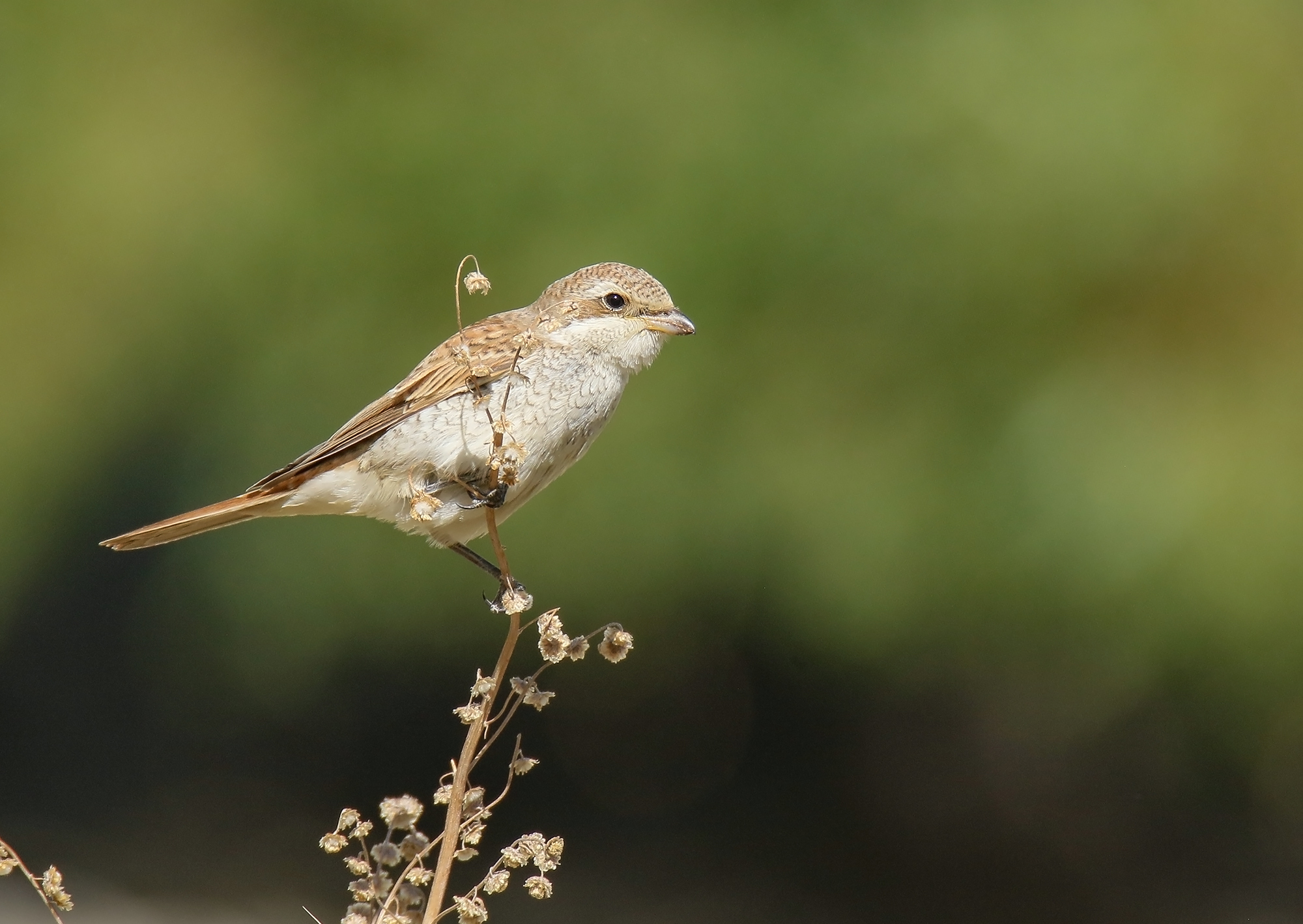 Rufous-tailed Shrike (Lanius isabellinus) captured at Borit, Gojal, Gilgit-Baltistan, Pakistan with Canon EOS 7D Mark II